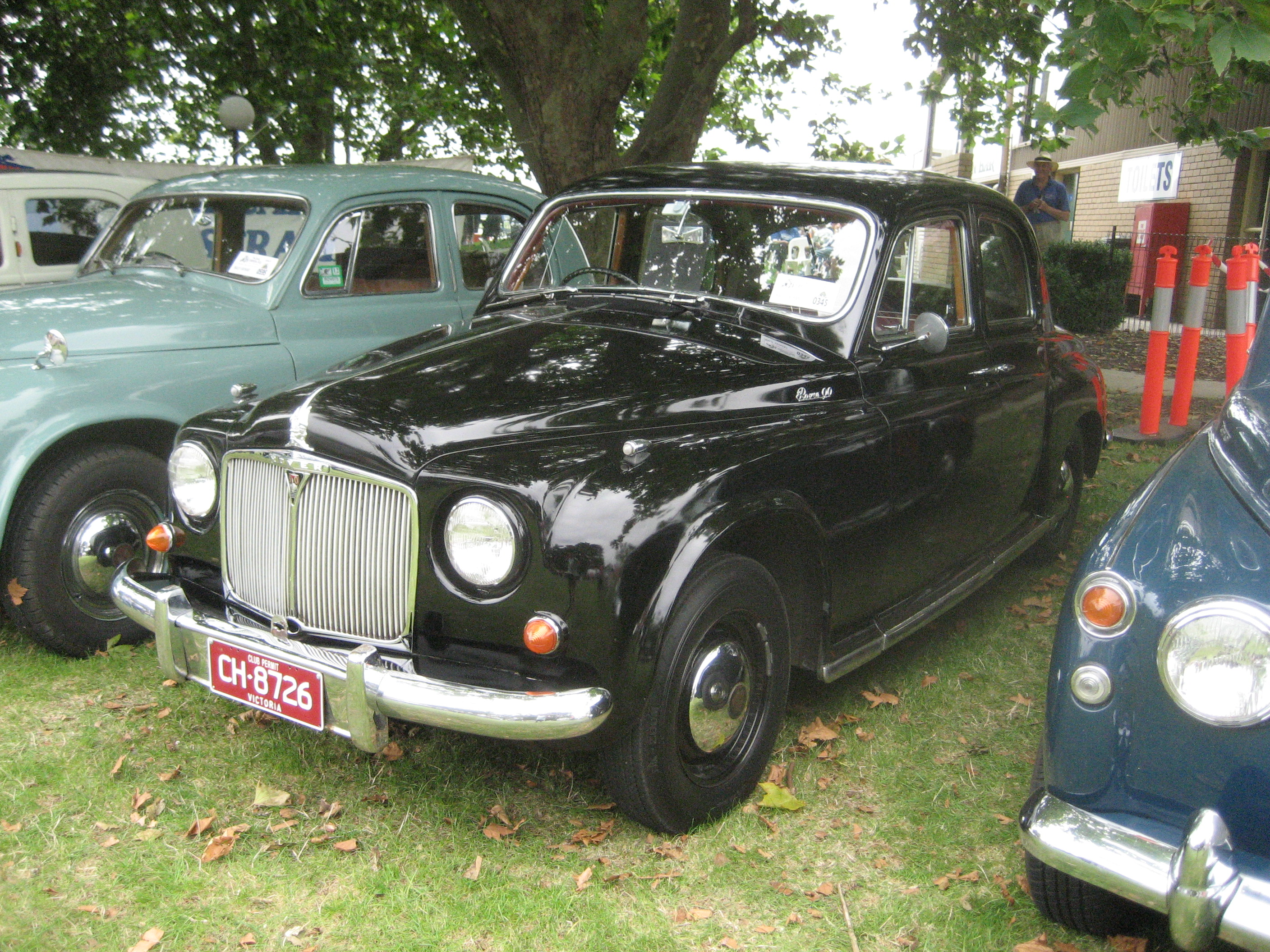 The P4 90 got a 2639cc 6 cyl and was built from 1953-59.